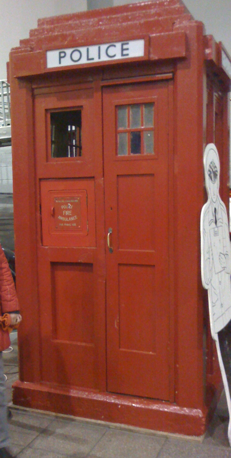 Red police box at the Glasgow Transport Museum